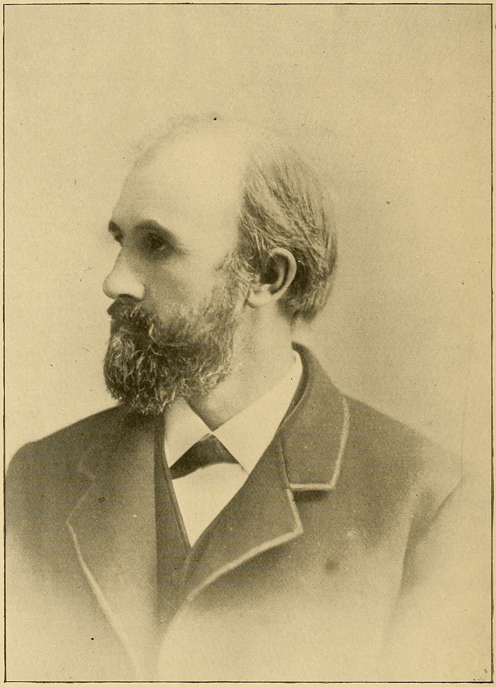 Cassier's Magazine of April 1892 had an article on page 474-479 about the engineer John E. Sweet and his company, The Straight-Line Engine Company. It was accompanied by this photo on page 428.